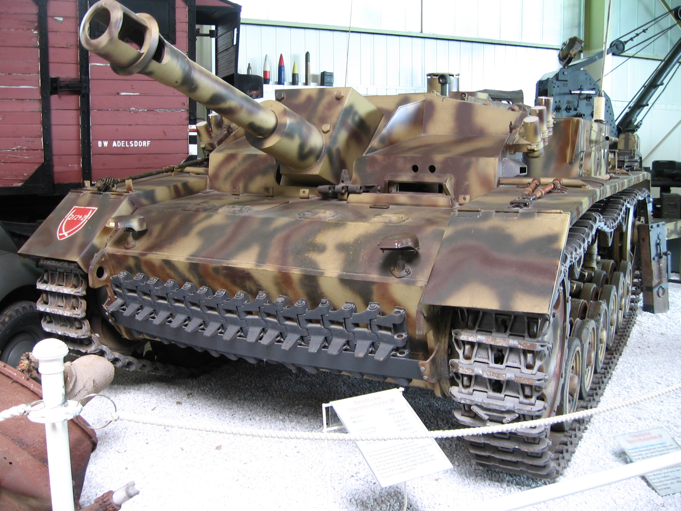 A German "Sturmhaubitze 42" assault gun at the Auto- und Technikmuseum Sinsheim / Germany. Picture taken in may 2006 by Christian Kath (me).